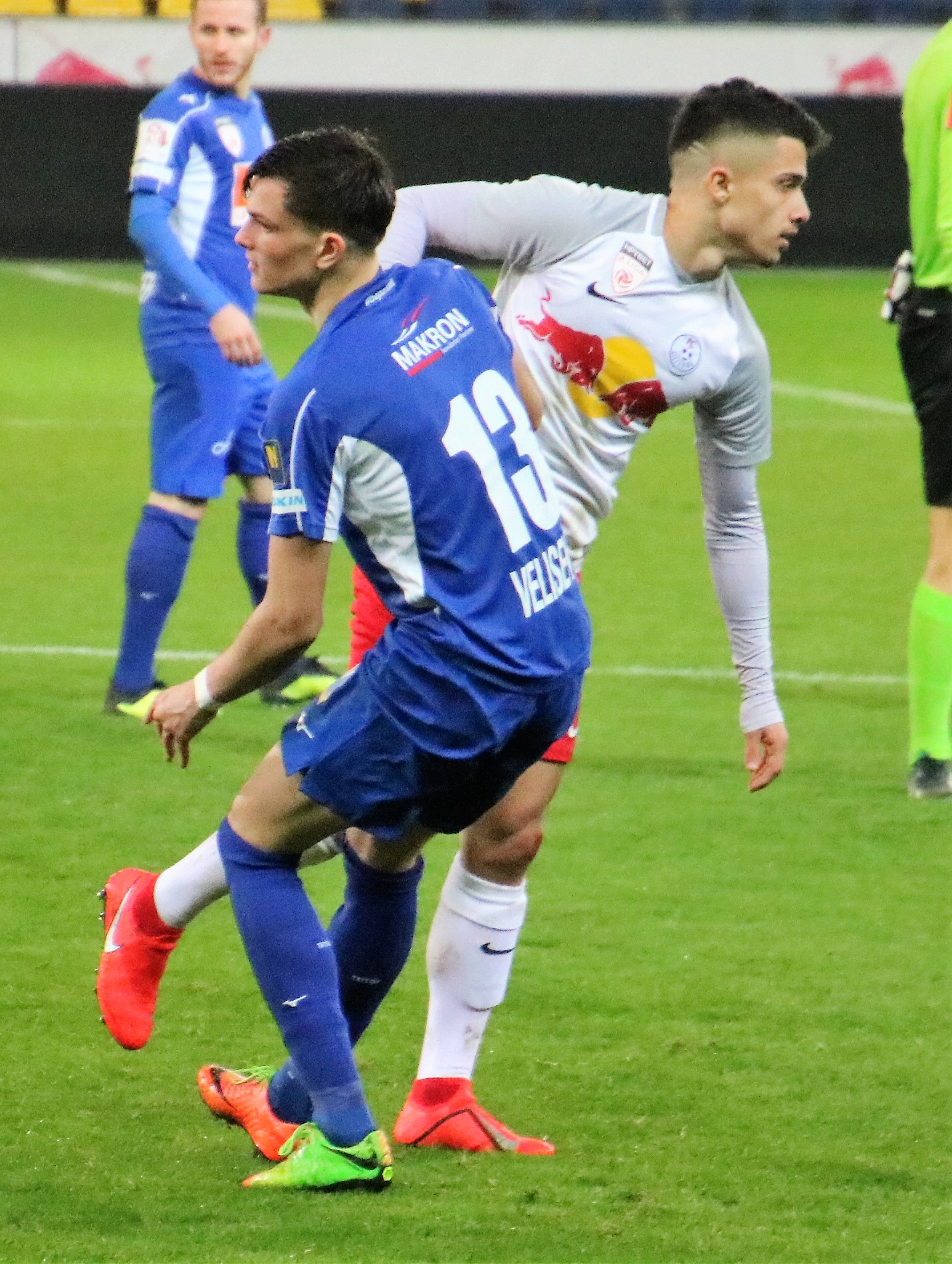 League match, Austria 2nd league